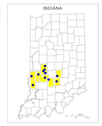 WIC Overview 2019